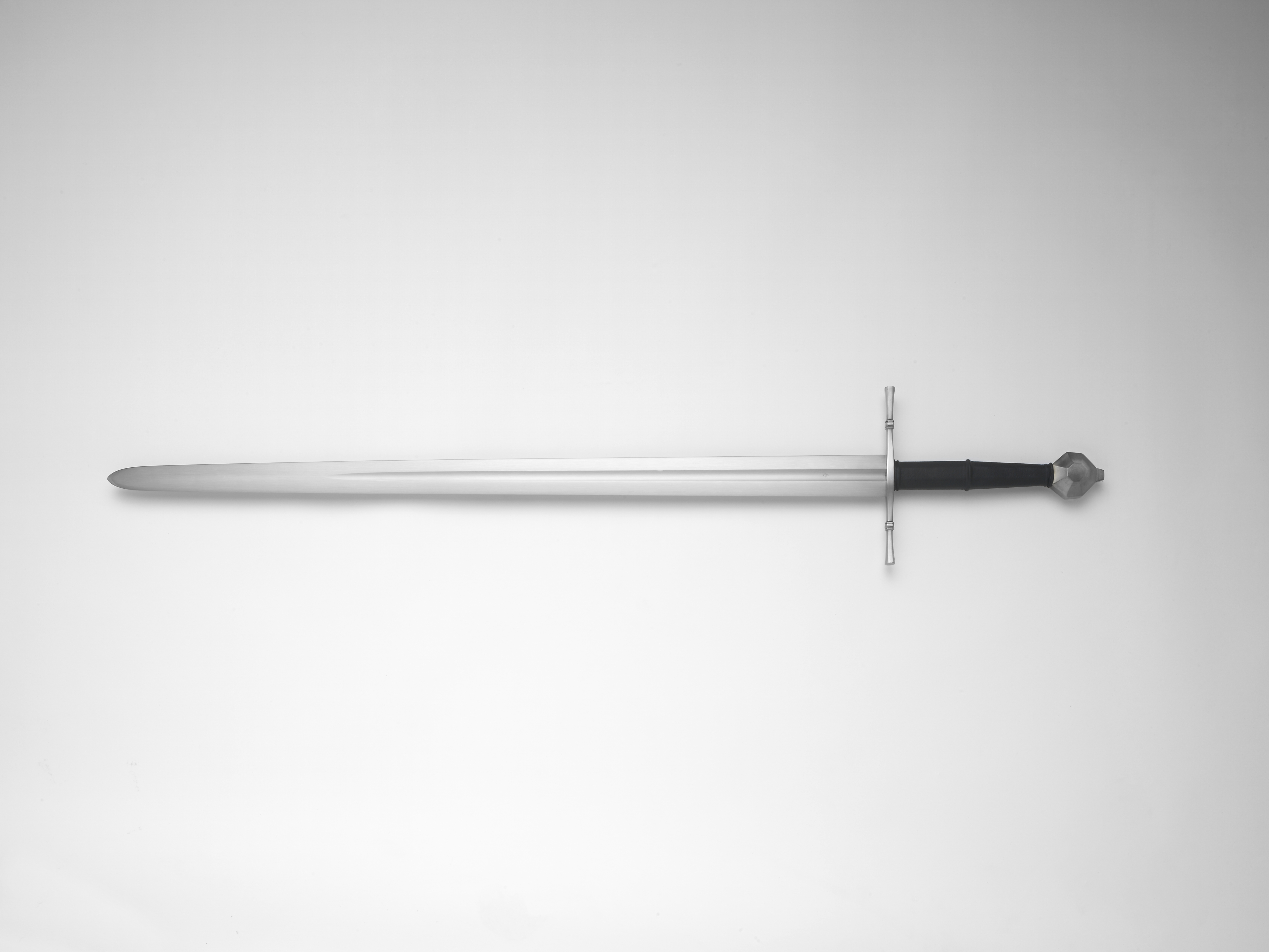 The Count Limited Edition Medieval War Sword